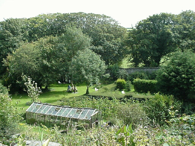 Manorowen walled garden. Alongside the main road and open to visitors. It has a very old summerhouse but no big house belonging to it. They also sell plants and flowers.